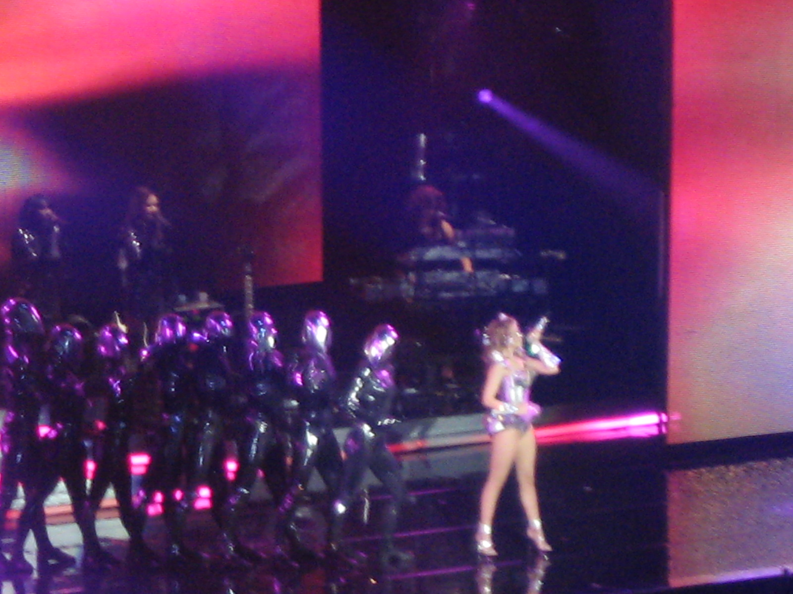 Kylie Minogue interpretando "Speakerphone" en en su gira norteamericana "For You, For Me Tour 2009"